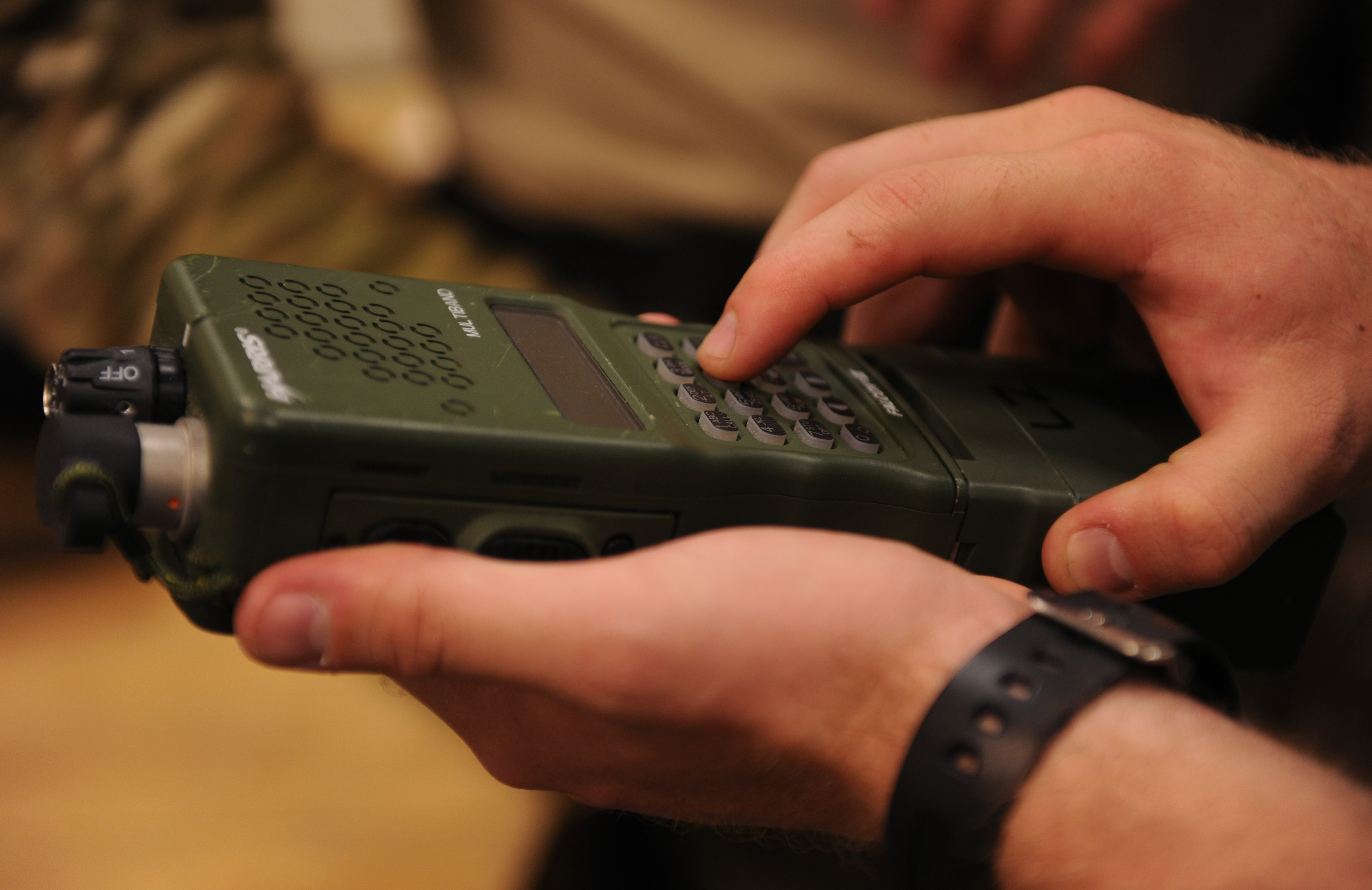 MOODY AIR FORCE BASE, Ga. -- Senior Airman Jacob Manee, 38th Rescue Squadron logistics flight communications, sets up a personal radio for a 38th RQS pararescueman here May 12. The AN/PRC-152 radio is used by the 38th RQS to communicate between members and also nearby air support during operations.